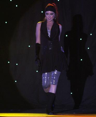 Miss Ukraine 2008 Irina Zhuravskaya performing in the talent show during Miss World 08